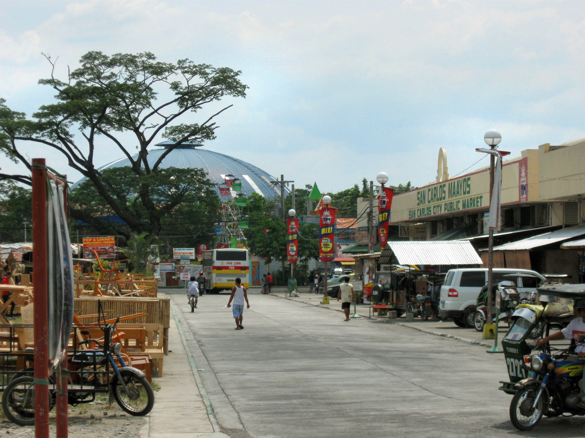 Public market and sport area (background) of San Carlos, Pangasinan, Philippines